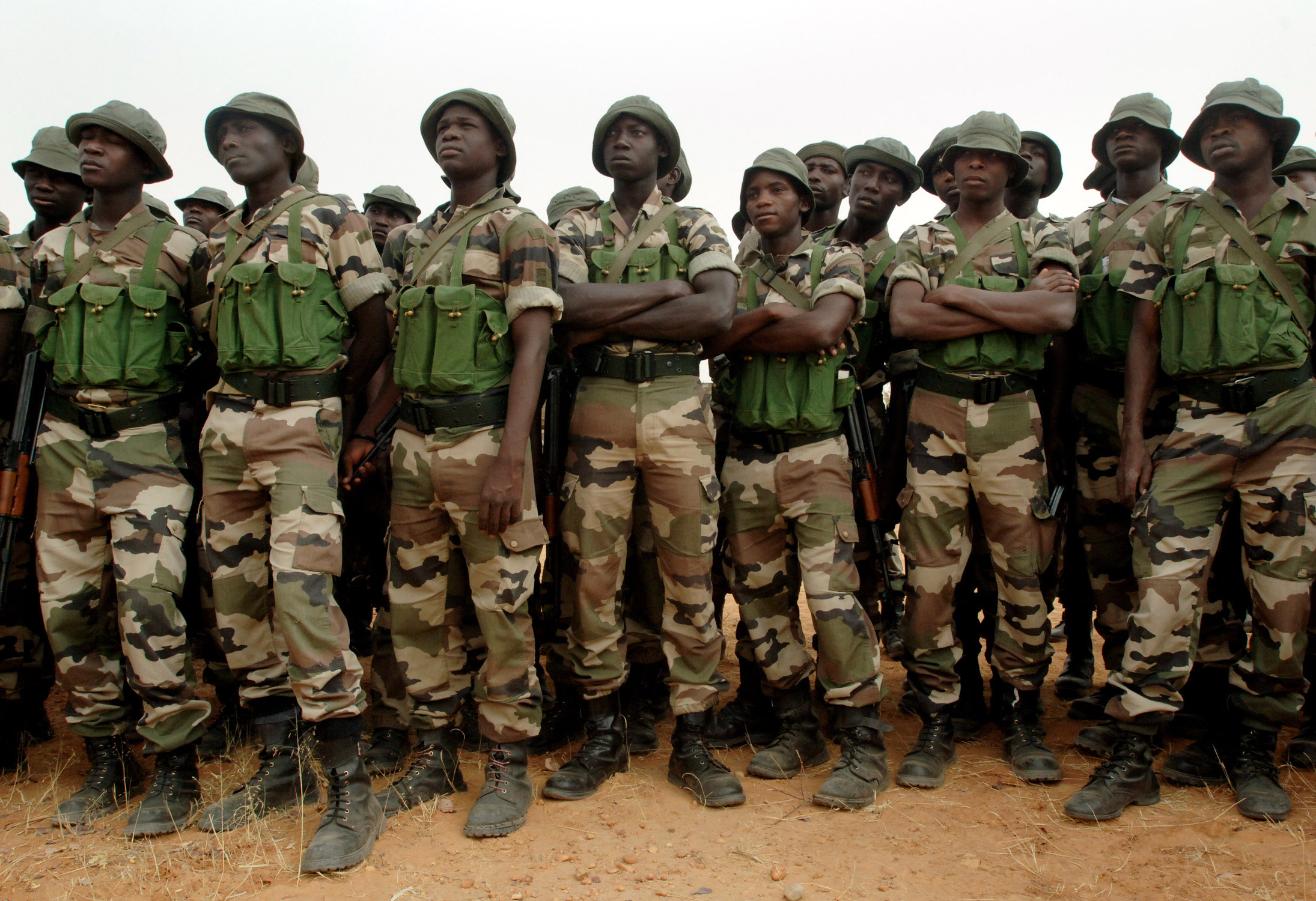 MARADI, Niger (April 3, 2007) - Nigerien soldiers assigned to the 322nd Parachute Regiment line up in formation before participating in target practice facilitated by U.S. Army soldiers during Operation Flintlock 2007. The primary focus of Operation Flintlock is to provide an interactive exchange of military, linguistic and intercultural skills for both nations. This event is part of an ongoing and long standing military-to-military relationship that the U.S. enjoys with Niger, and part of the U.S. State Department's Trans-Sahara Counterterrorism Partnership (TSCTP). U.S. Navy photo by Mass Communication Specialist 1st Class Michael Larson (RELEASED)